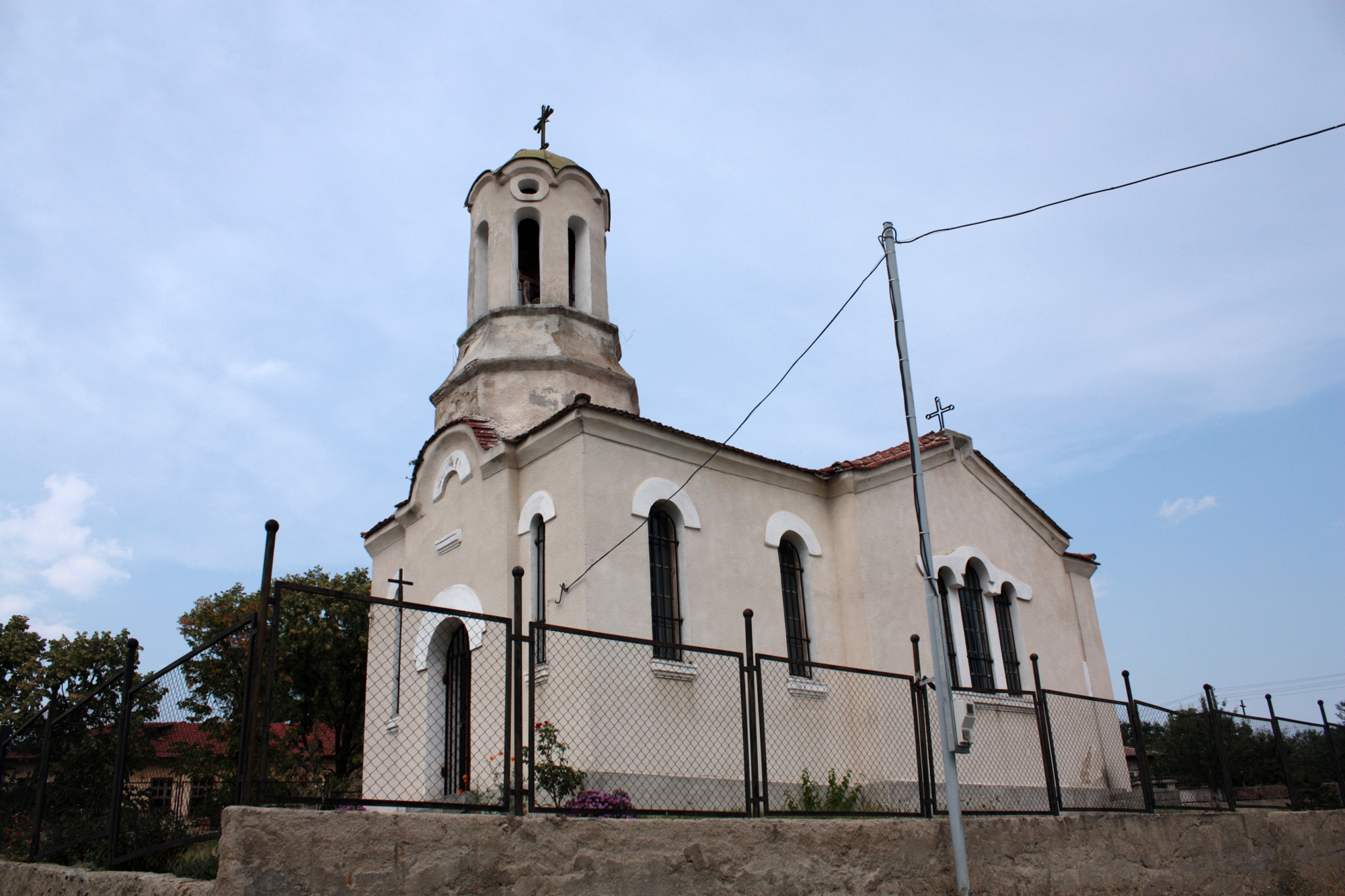 Orthodox church in Dyulevo, Bulgaria